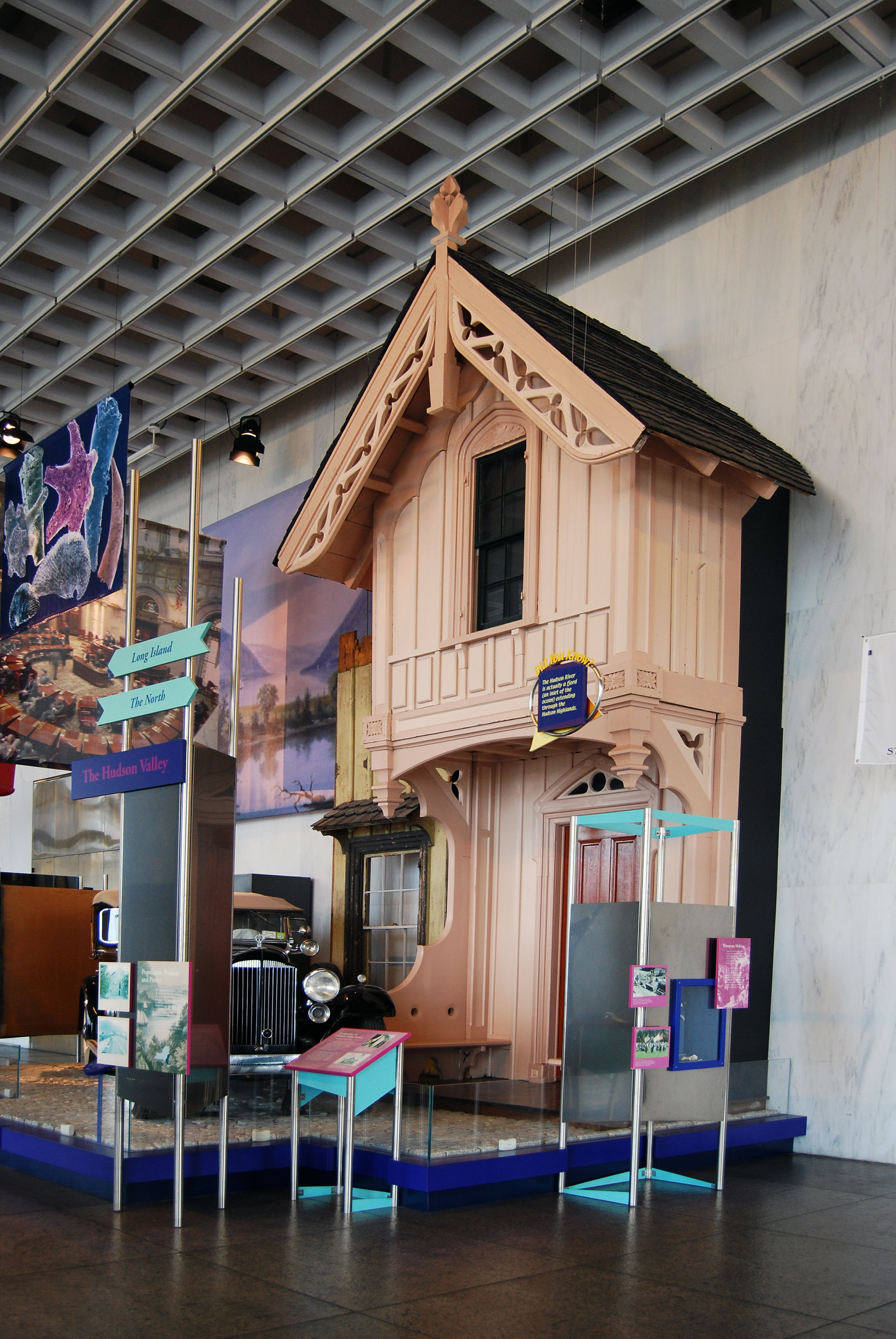 Facade of the cottage at Springside, originally located in Poughkeepsie, New York, United States, now residing in the New York State Museum in Albany